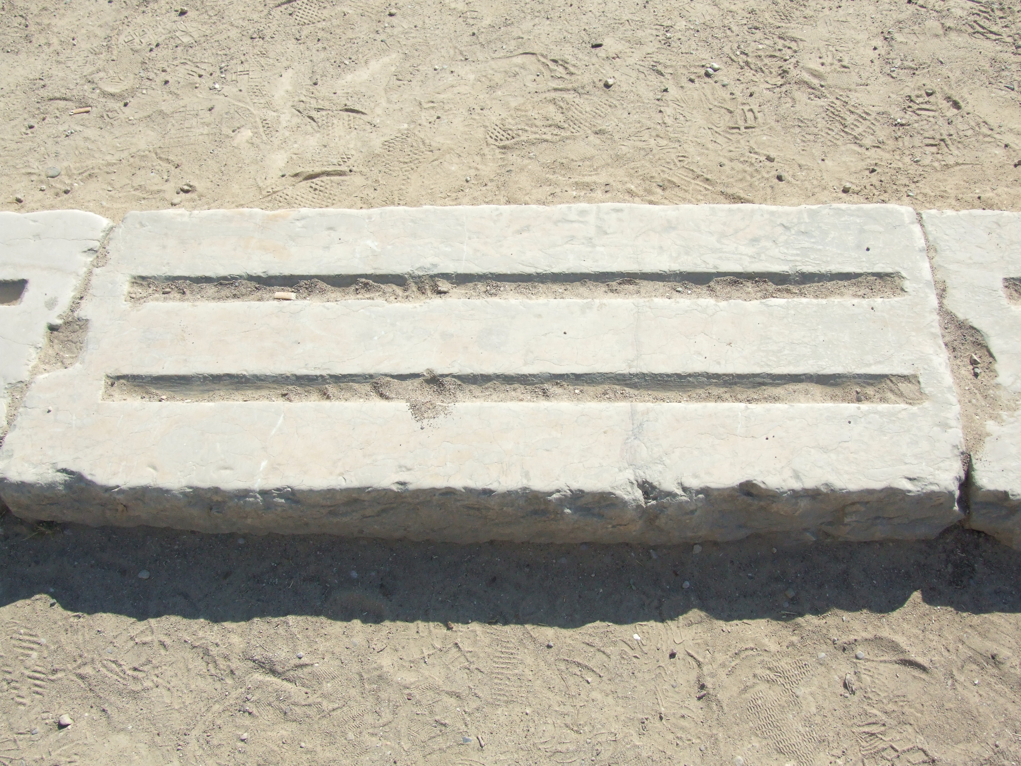 Part of the starting line at the stadium at Olympia